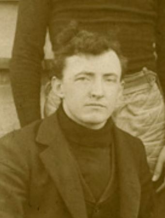 Depicted person: Horace Butterworth – American football and baseball coach, college athletic administrator